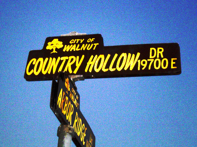 Photographed and uploaded by user:Geographer. Roadsign in City of Walnut, Nov 6, 2004